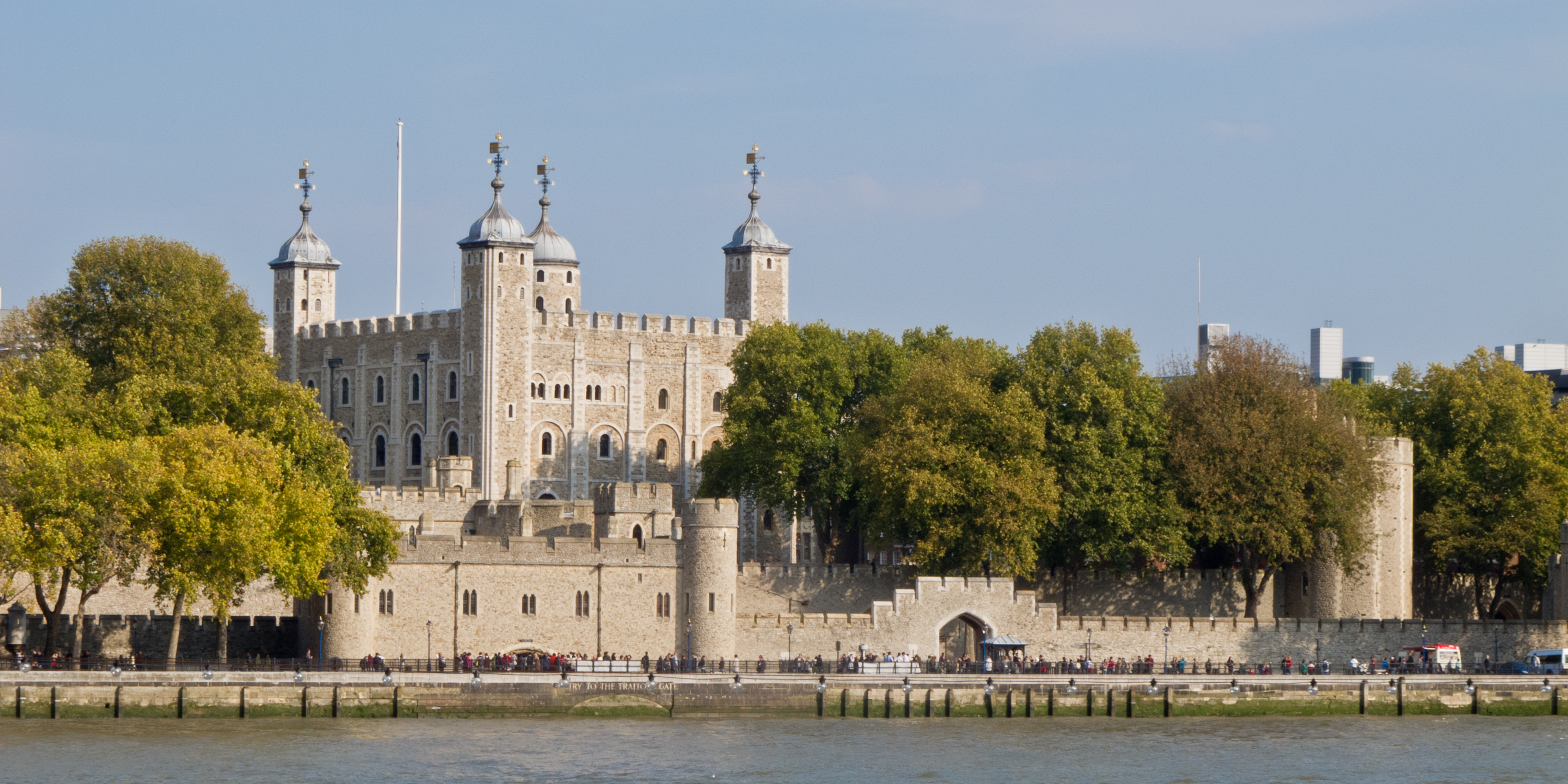 Tower of London seen from the opposite bank of river Thames (London, England).